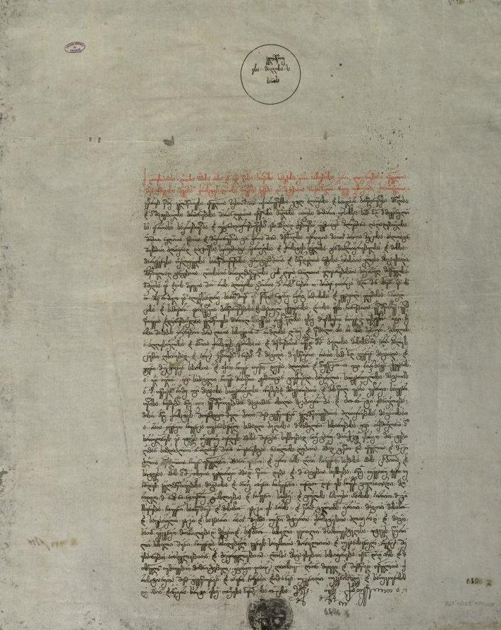 Letter to Spanish King Philip IV from the Georgian King Teimuraz I.